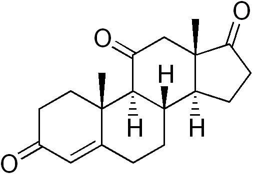 chemical structure of adrenosterone